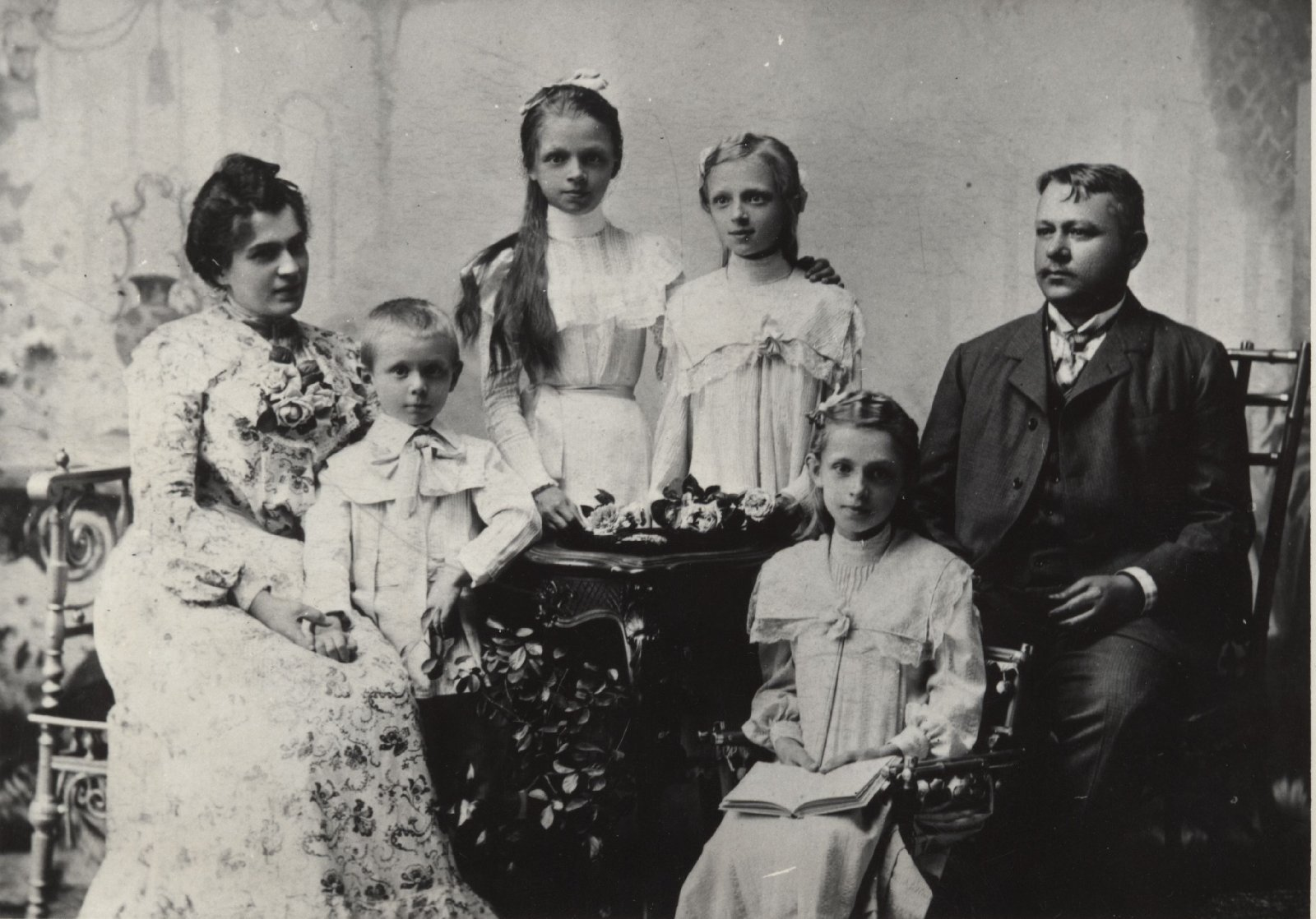 Miklos Bonczos sen. land registrar and his family